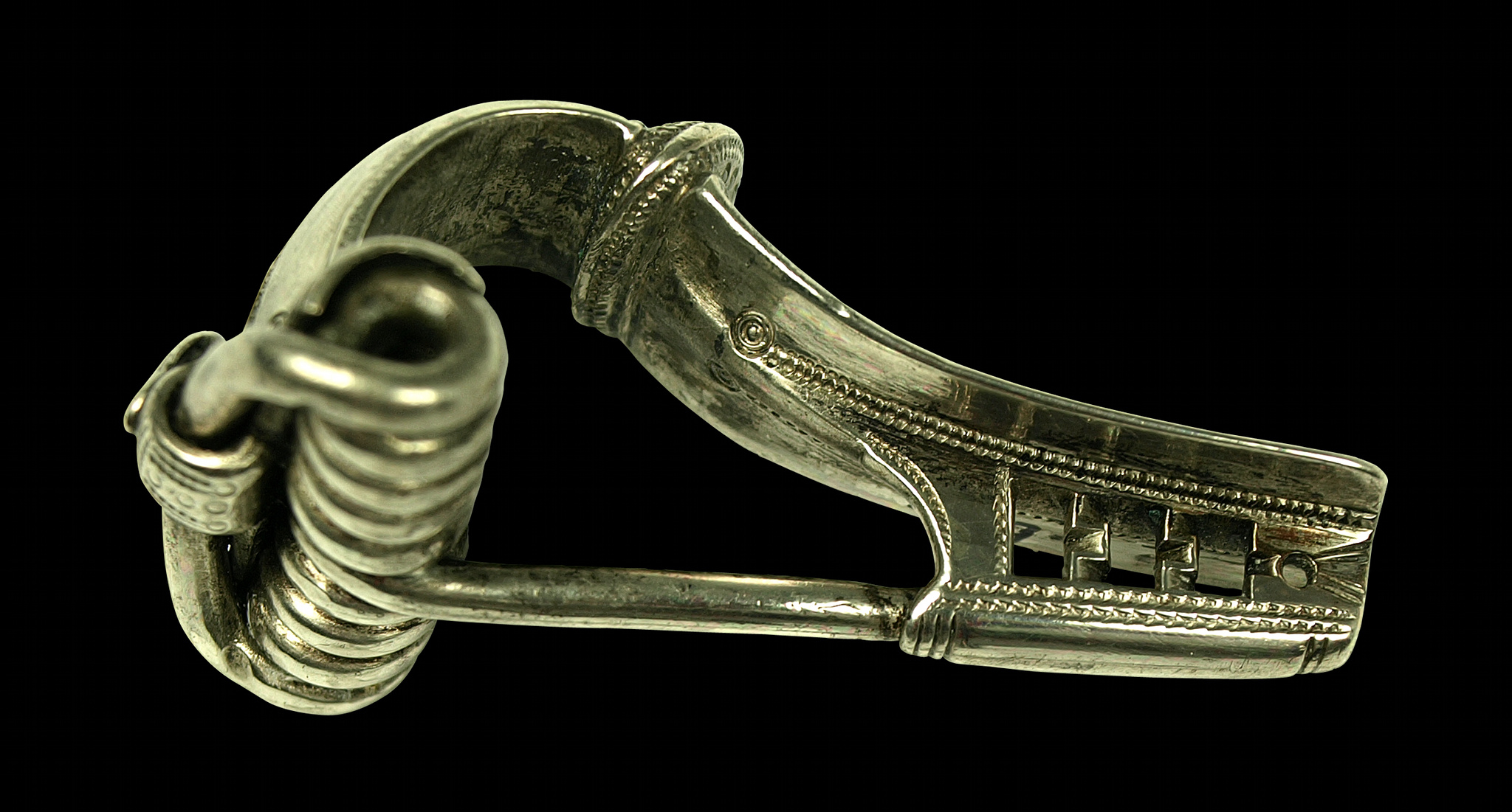 Underside of a silver fibula (Rollenkappenfibel) from the grave goods of the Lombard warrior's grave Putensen 150